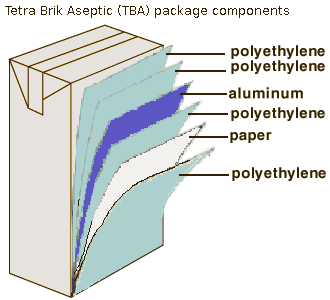 The components of a TBA (Tetra Brick Aseptic) package. The drawing was made based on the drawing at and